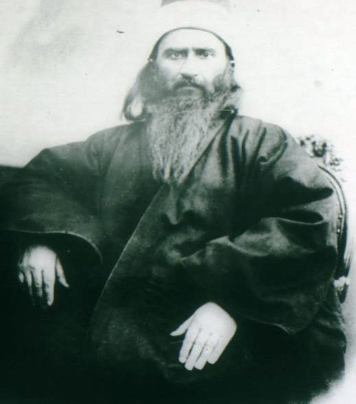 Bahá'u'lláh